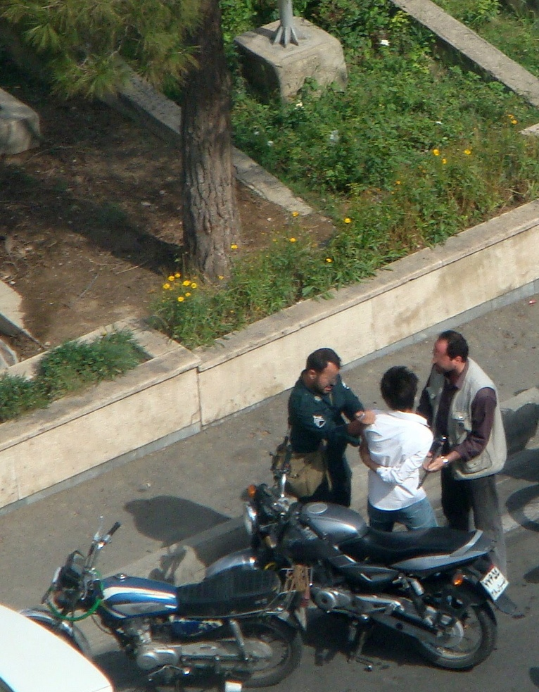 A policeman (L) and a Basiji (R) arresting a young man for Carrying a knife in front of Iranian parliament.